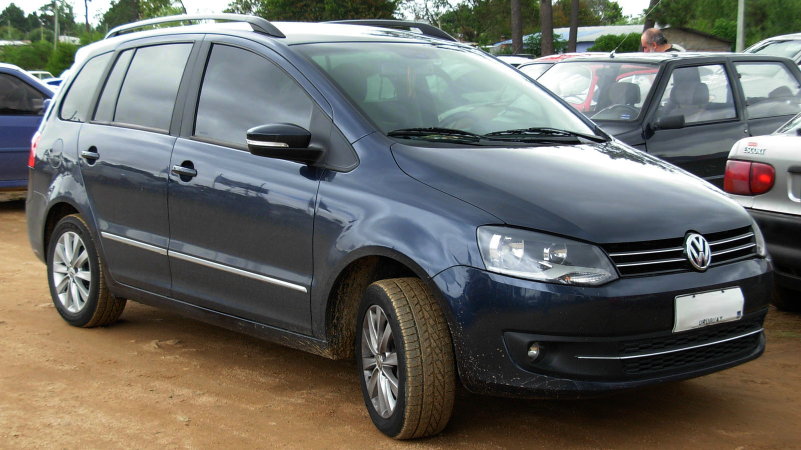 Front view of a 2010 Volkswagen Suran, pictured in El Pinar, Uruguay.